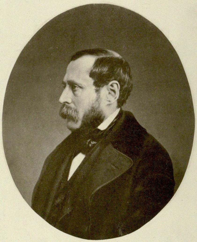 Jean Servais Stas (* 21. August 1813 in Löwen; † 13. Dezember 1891 in Brüssel, Belgien)